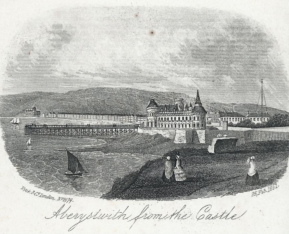 Aberystwyth from the Castle